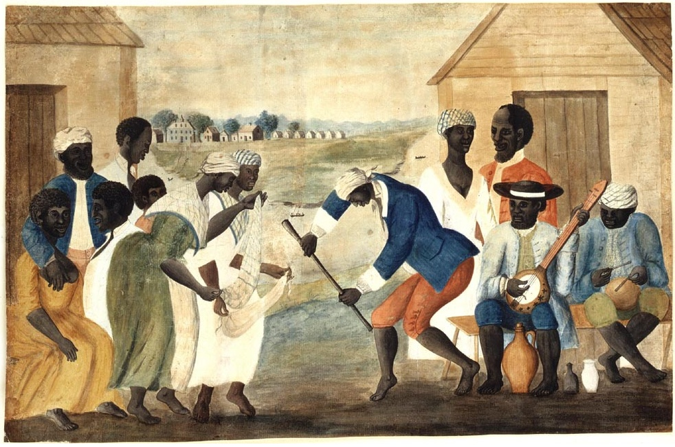 The Old Plantation (anonymous folk painting). Depicts African-American slaves dancing to banjo and percussion